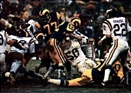 A football card from the 1986 Jeno's Pizza NFL football card stickers set of Minnesota Vikings defensive tackle Alan Page tackles Los Angeles Rams running back Lawrence McCutcheon (left) in the 1977 NFC Divisional Playoff Game on December 26, 1977. The card is numbered #18 in the set. The back of the card reads: VIKINGS WIN THE MUD BOWL All-pro defensive tackle Alan Page of Minnesota (88, left) tackles Los Angeles running back Lawrence McCutcheon, as the Vikings beat the Rams 14-7 in their 1977 NFC Divisional Playoff Game. A heavy downpour turned the Los Angeles Coliseum field to mud, but it didn't hamper the Vikings' defense, which shut out the Rams until late in the fourth quarter.